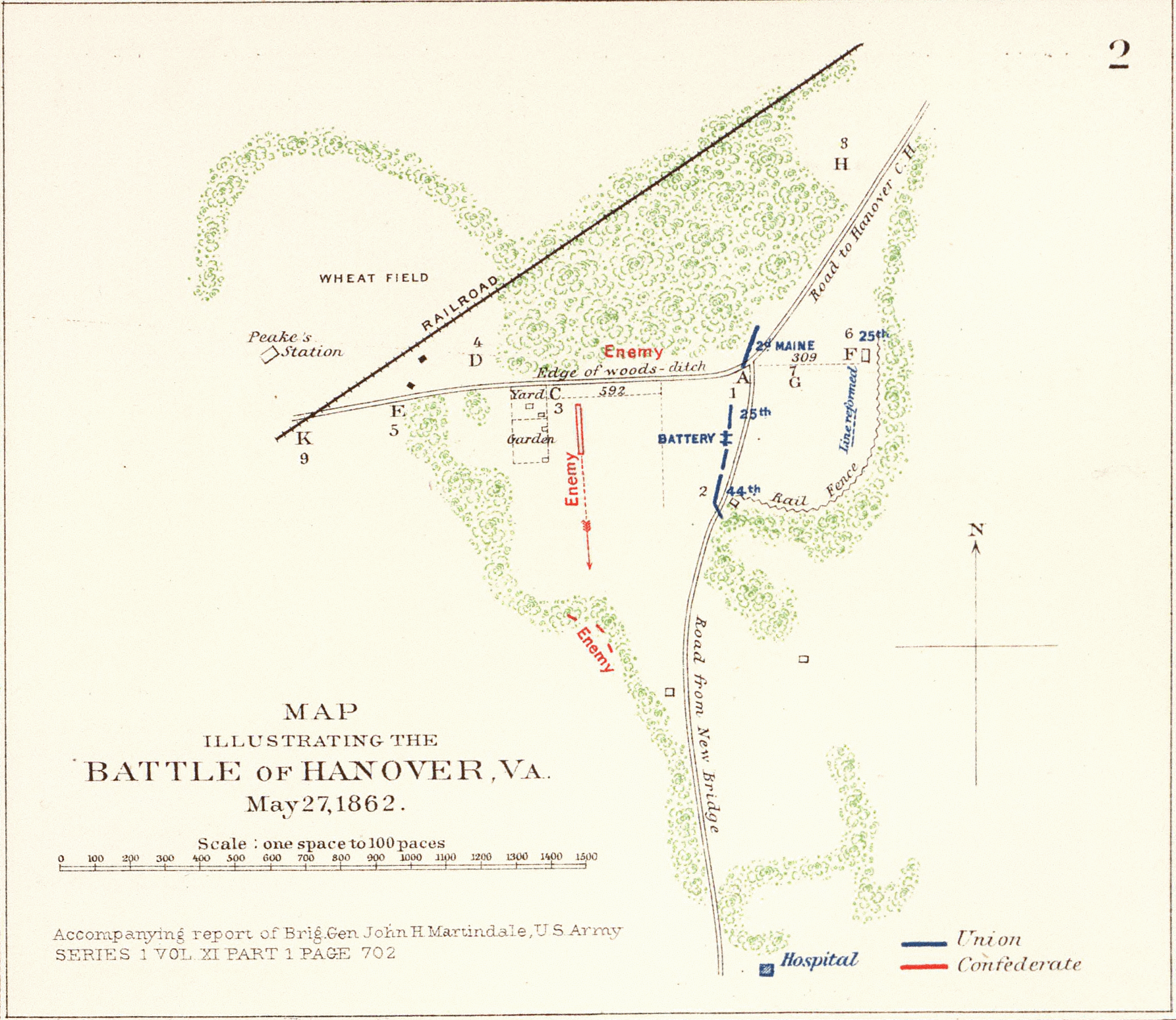 Rough sketch of reconnaissance, May 24th, 1862 (by) R. H. Rush, Col. Lancers. Extracted map illustrating the Battle of Hanover, Va., May 27, 1862. Full version available at the David Rumsey Historical Map Collection: Images from U.S. Civil War. Accompanying report of Brig. Gen. John H. Martindale ... Engagement near Hanover Court-House, Va., May 27, 1862. Accompanying report of Col. S.W. Stryker ... Reconnaissance made on the afternoon of May the 23d, 1862 (by) Alexander Doull ... Map of march from Mount Airey to Old Church, Va., May 23rd 1862 ... accompanying report of Col. R.O. Tyler ... Skirmish between two rebel batteries and Battery B, 1st Md. Arty., June 5th, 1862 at New Bridge, Va. Accompanying report of Captain A. Snow ... Battle of Mechanicsville, Va., June 26 and 27, 1862. Accompanying report of Brig. Gen. T. Seymour ... Sketch of the Battle of New Market, Va., June 30, 1862 ... Map to accompany the report of Brig. Gen. J.E.B. Stuart ... commanding Pamunkey Expedition to the enemy's rear, June 13, 14 and 15, 1862 ... Malvern Hill, Va., Morrell's Division, July 1st, 1862. Engagement near Hanover Court-House, Va., May 27, 1862. Accompanying report of Brig. Gen. D. Butterfield ... Topography of the battle-field of Cross Keys, Va. by Lieut. Col. John Pilsen ... Accompanying report of Maj. Gen. J.C. Fremont ... Map of route and positions, First Corps, Army of Virginia, Major General Sigel, commanding from July 7th to Sept. 10th 1862 (by) Franz Kappner, Maj. and Chf. Engr. Julius Bien & Co., Lith., N.Y. (1891-1895) Author: United States. War Department; Date: 1895